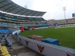 It is updated picture of Rajiv Gandhi International Cricket Stadium ,Hydreabad after canopy roofing is done.Please upddate in main pic place.